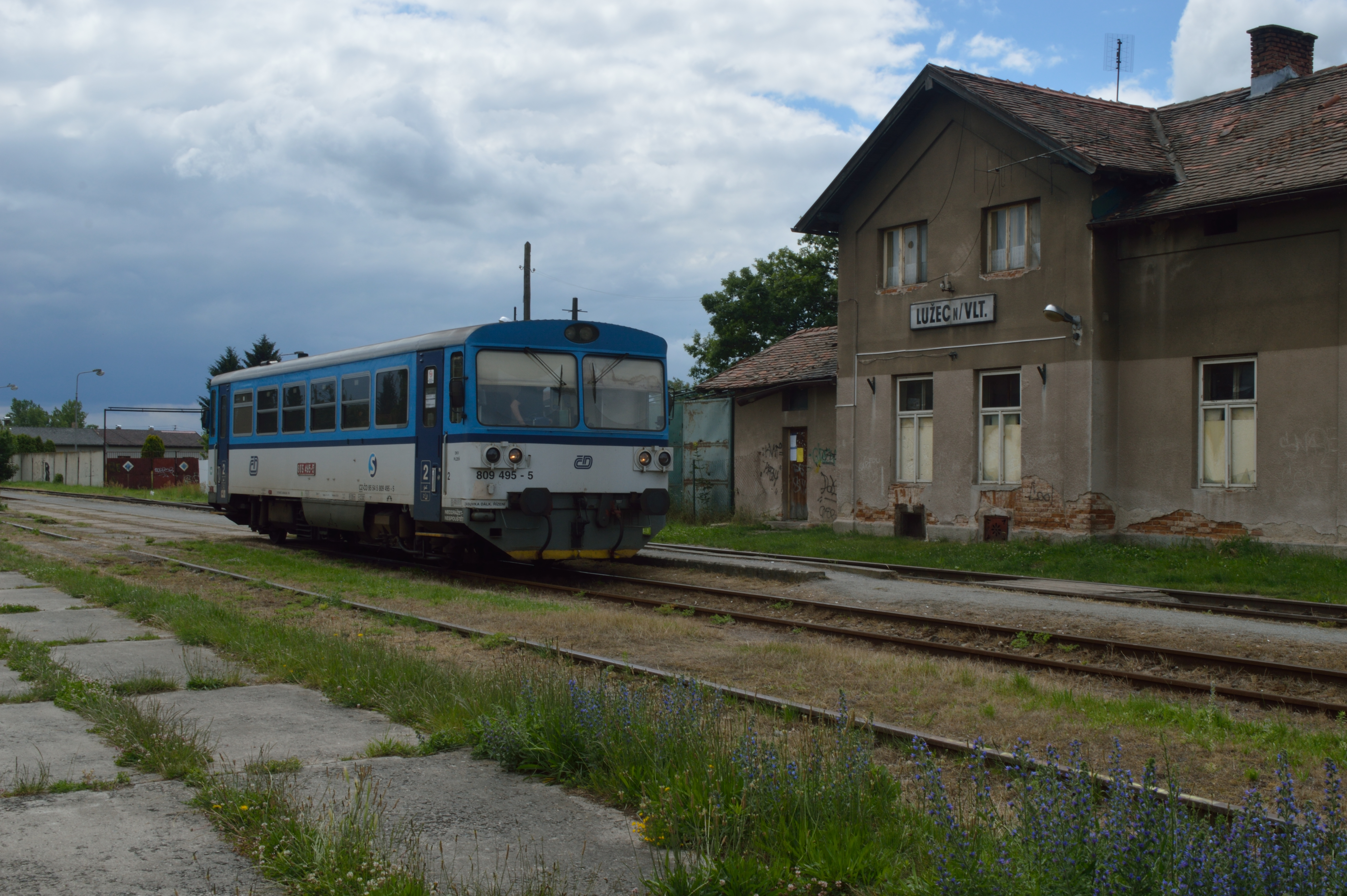 Seen at the end of the short branch from Vraňany, on 24 June 2015 809.495 is seen at Lužec nad Vltavou. Train Os9673, 12:05 Lužec nad Vltavou to Kralupy nad Vltavou.